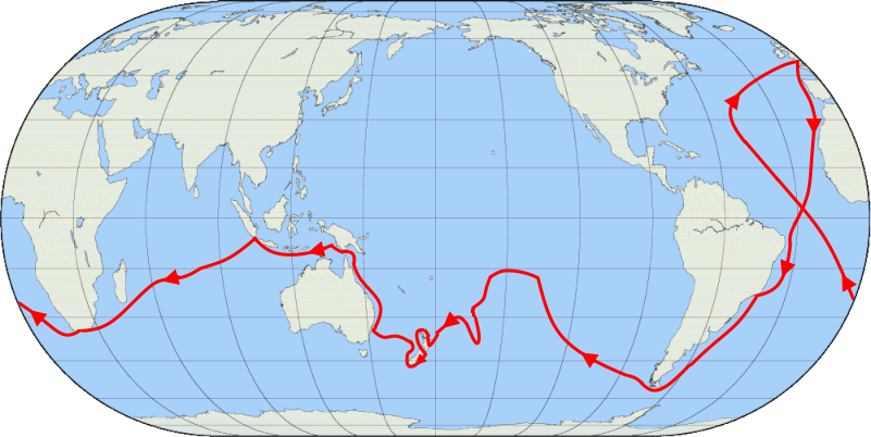 Map showing the first voyage of Captain James Cook.